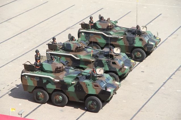 WZ-523 armoured personnel carriers of the Ghanaian Army on parade in 2013.